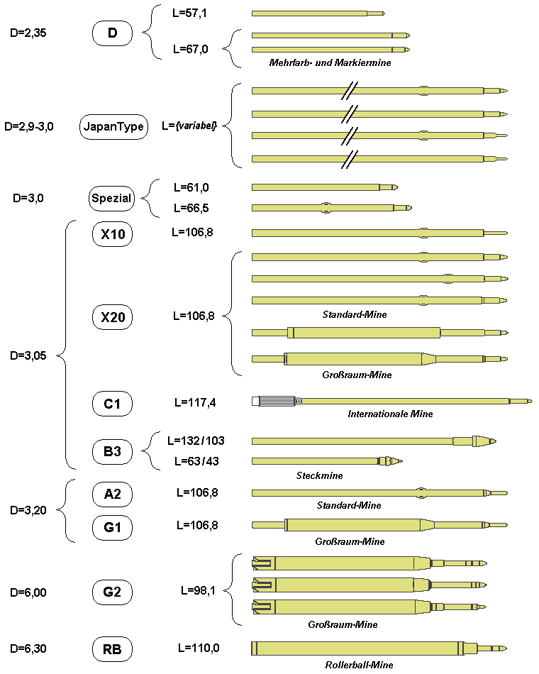 Commonly used ballpoint pen refills (D=diameter at the end of the refill, L=length in mm)